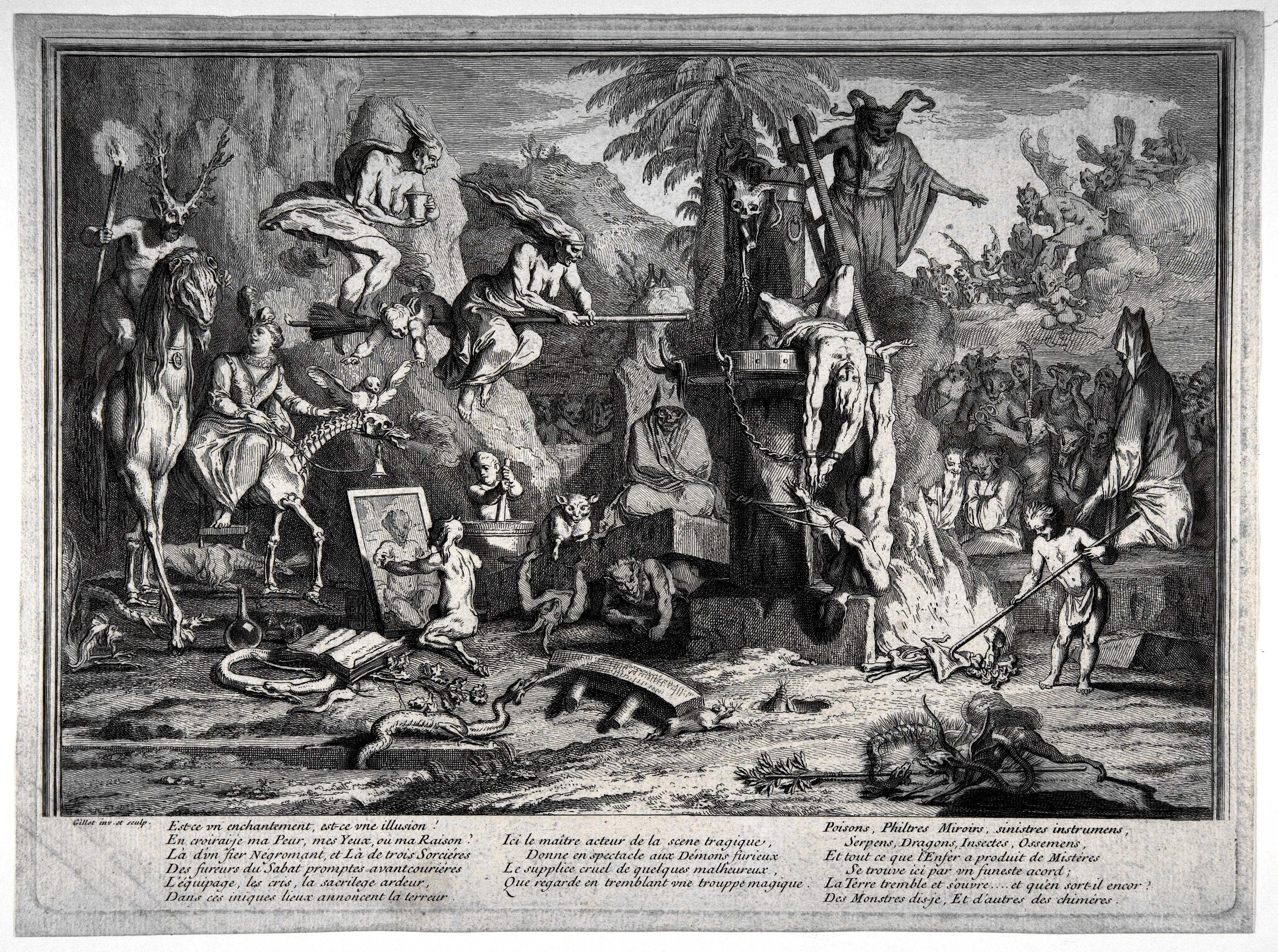 Etching by Claude Gillot (1673–1722), representing a demonic and nightmarish scene.